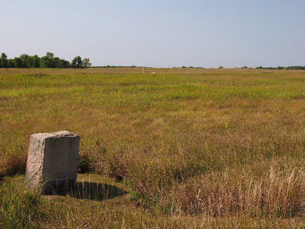 Birch Coulee Battlefield, Renville County, Minnesota, USA. View from County Road 2 looking southwest. White post in upper center marks U.S. Army encampment, people on horizon at right are on slight rise behind which Wamditanka's man attacked from.